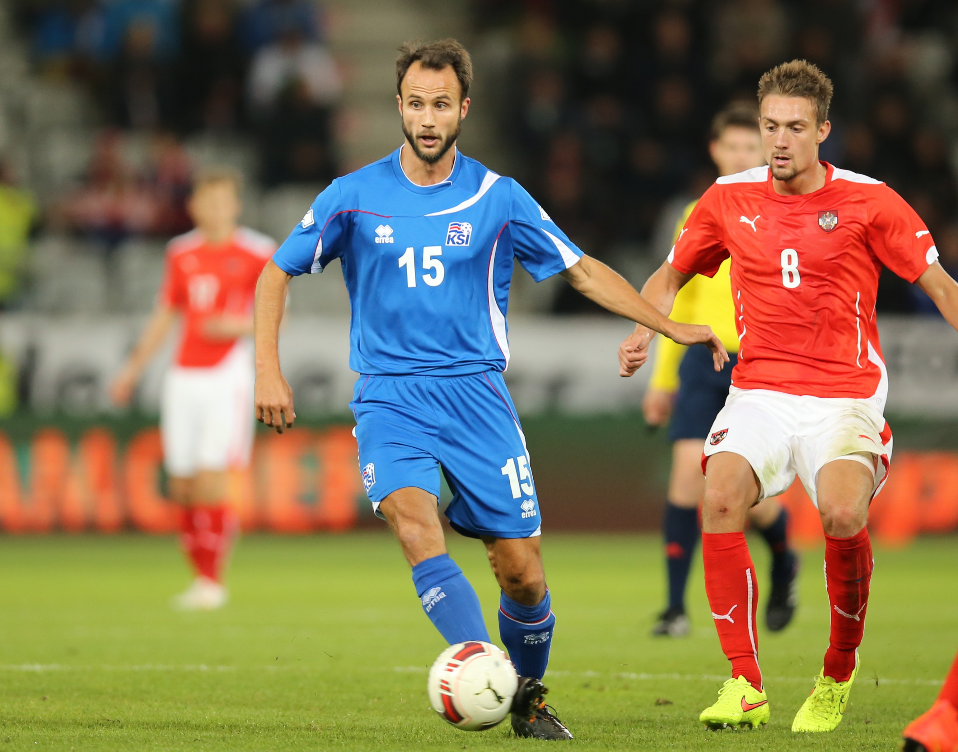 Austria - Iceland football match in Innsbruck, Austria on 2014-05-30. Austria in red, Iceland in blue.